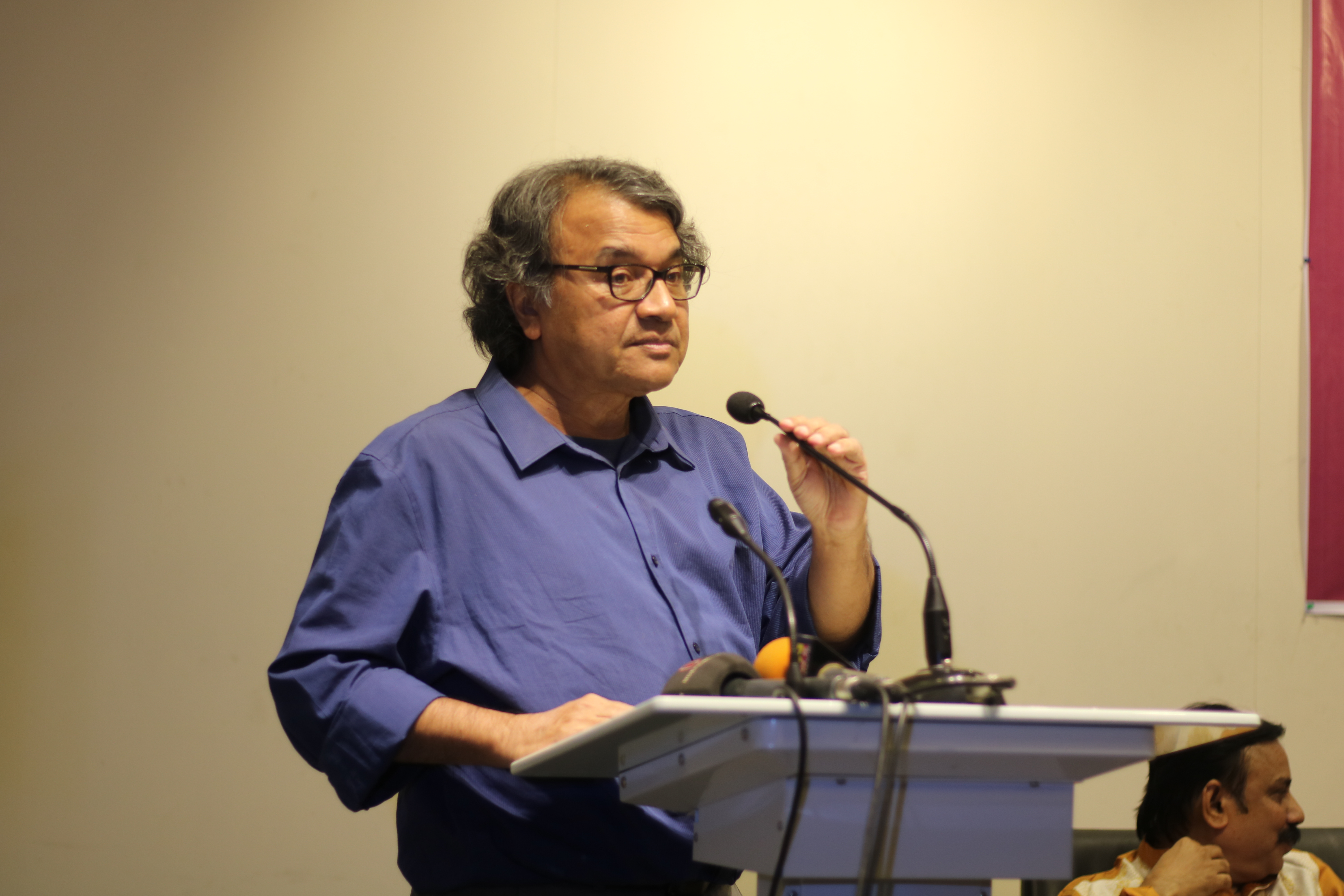 'Lok' Literature Award 2017 was dedicated to the Salimullah Khan.